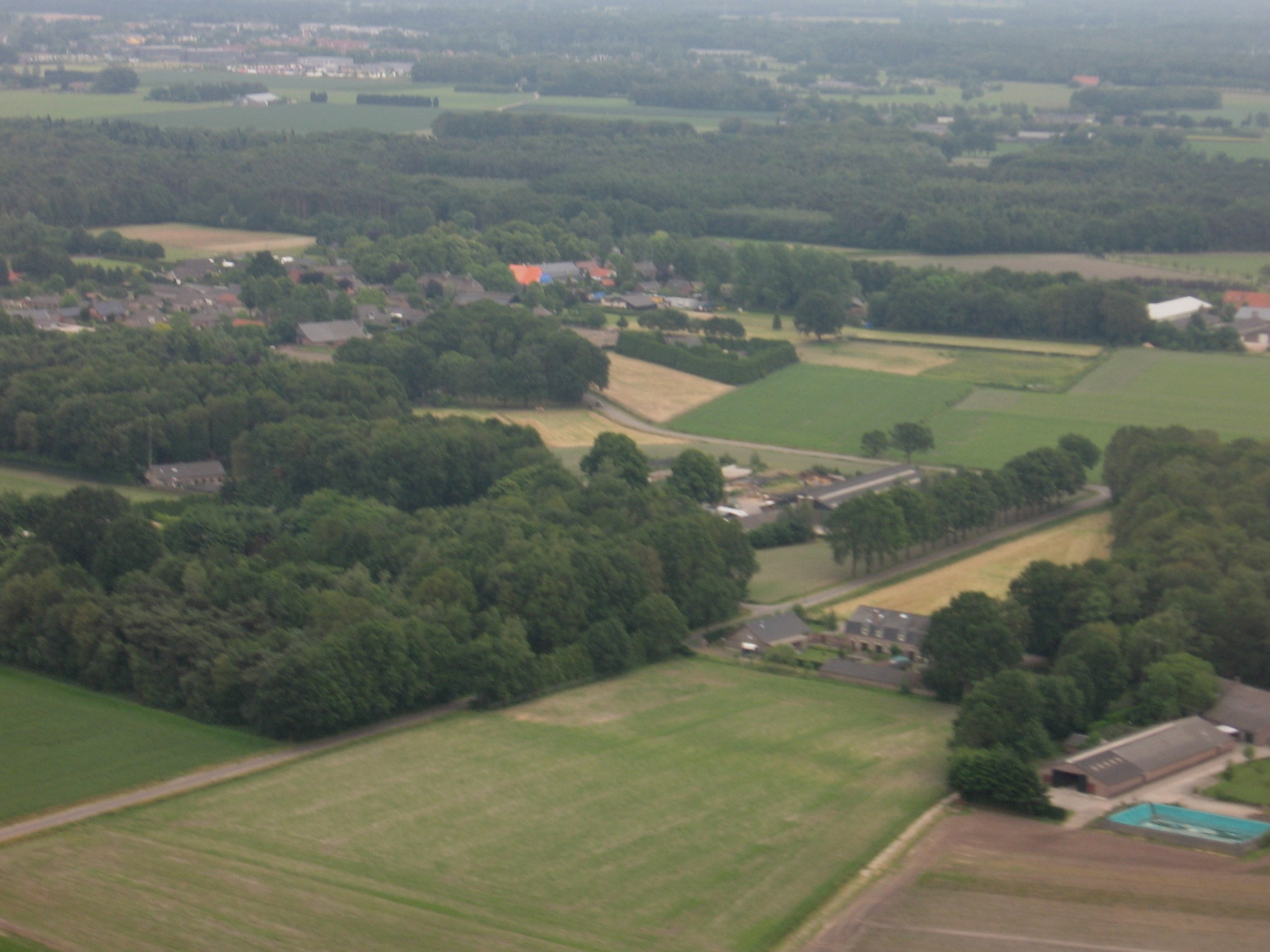 Zandoerle